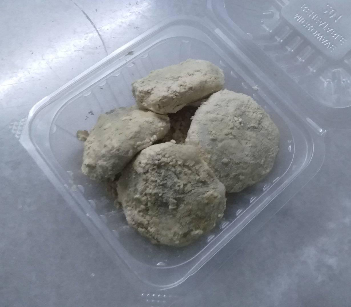 Kuih Tepung Gomak, popular snack in east coast of Malaysia.